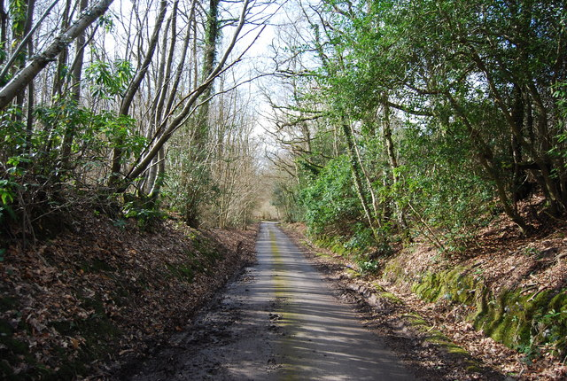 Roger's Rough Rd (7) A quiet rural lane between kilndown & Bedgebury. Passing through Combwell Wood, a SSSI.